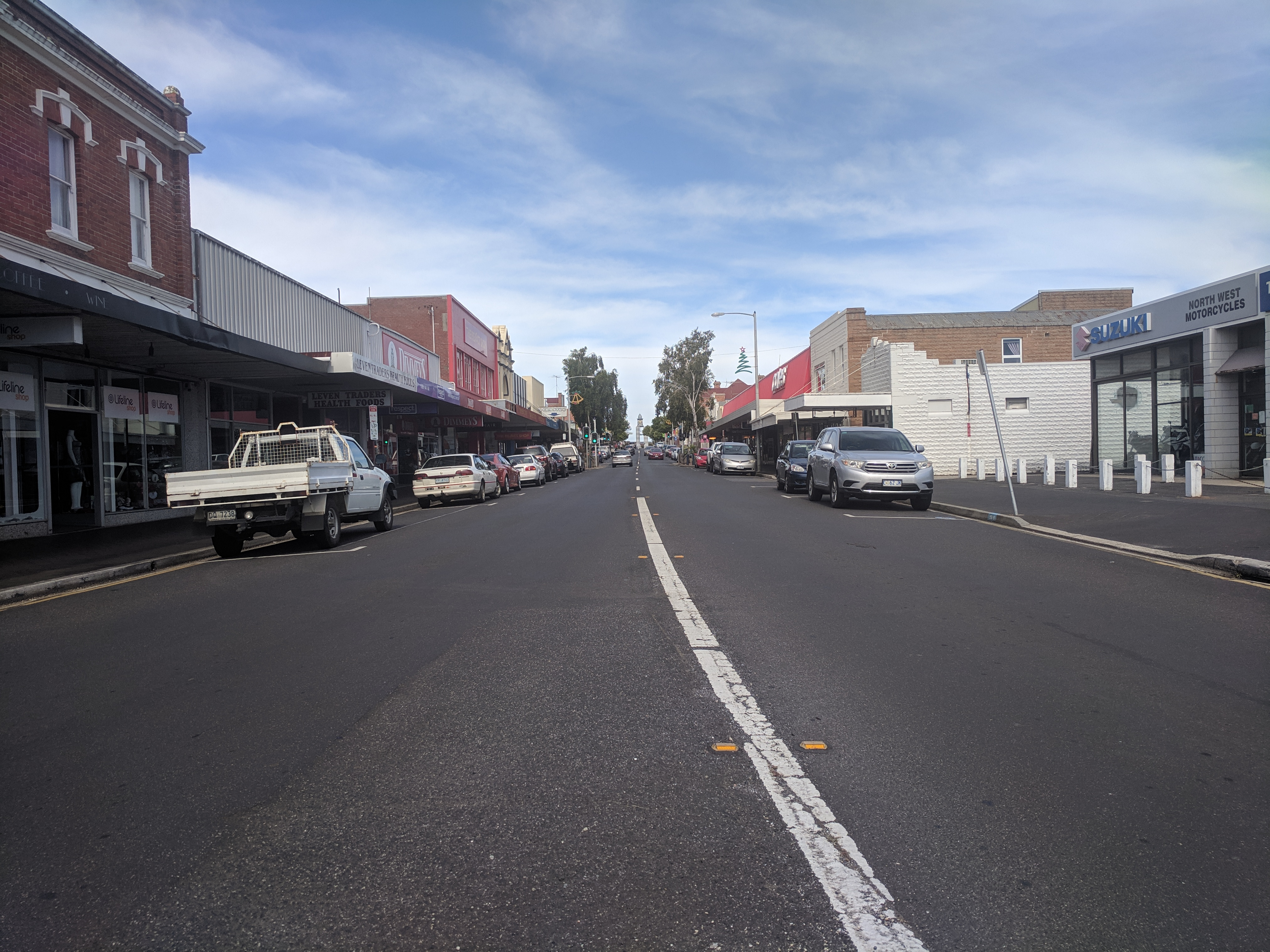 The Main Street of Ulverstone in 2018